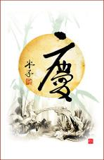 19. In 2004, Bessie Banmi Fooks commissioned Kevin Banes of Waialua, HI to create a graphic that depicts the images of Banmi Shofu Ryu, which included as shown in the above image, a rising moon, the word happiness in kanji, and the hallmark driftwood.